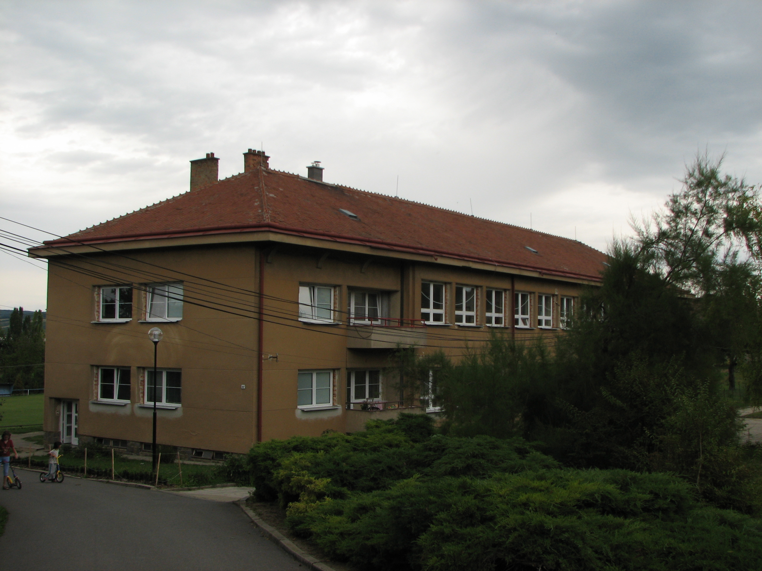 Věteřov - municipal office